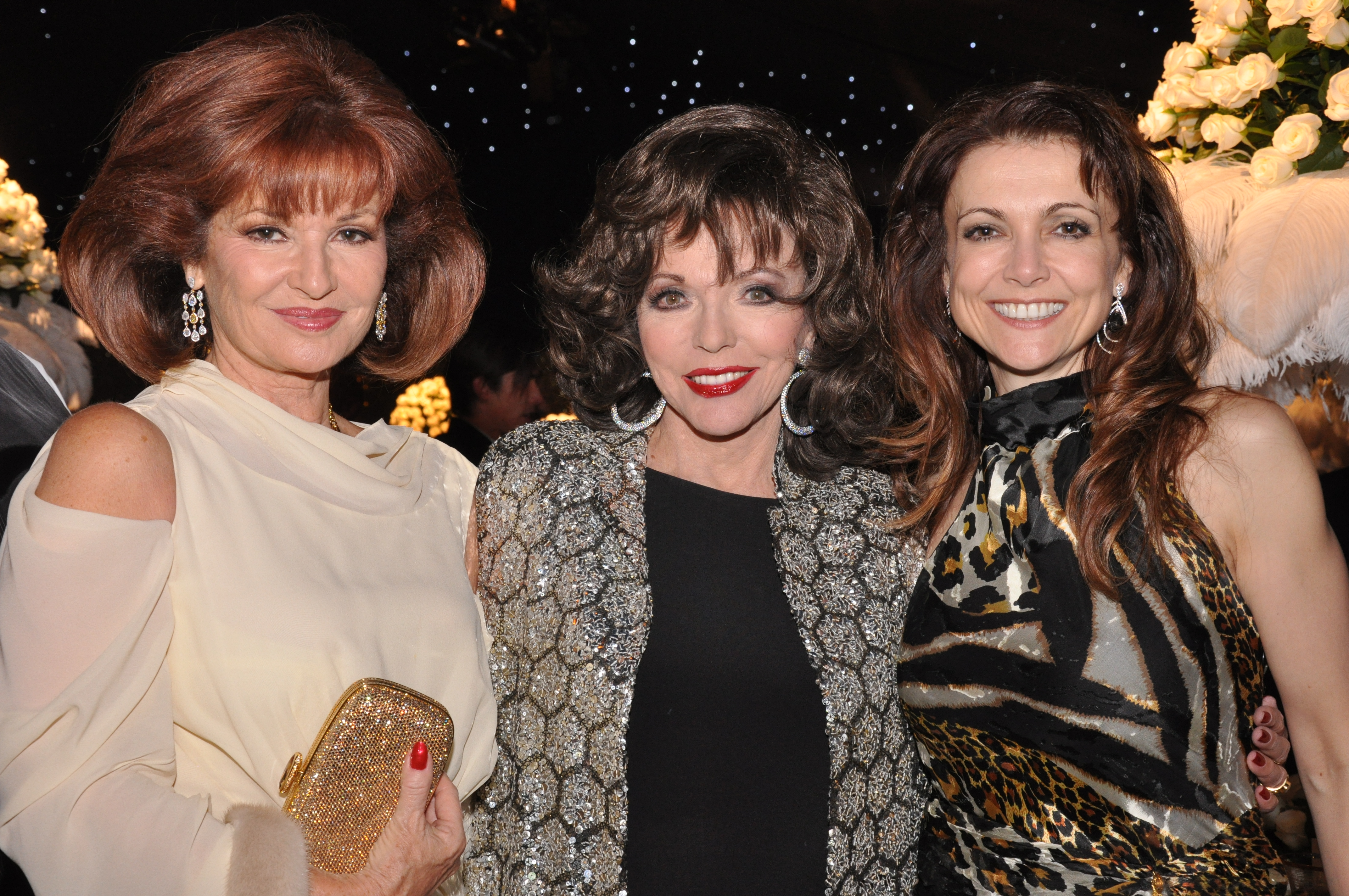 Stephanie Beacham, Joan Collins and Emma Samms in London, 2009.